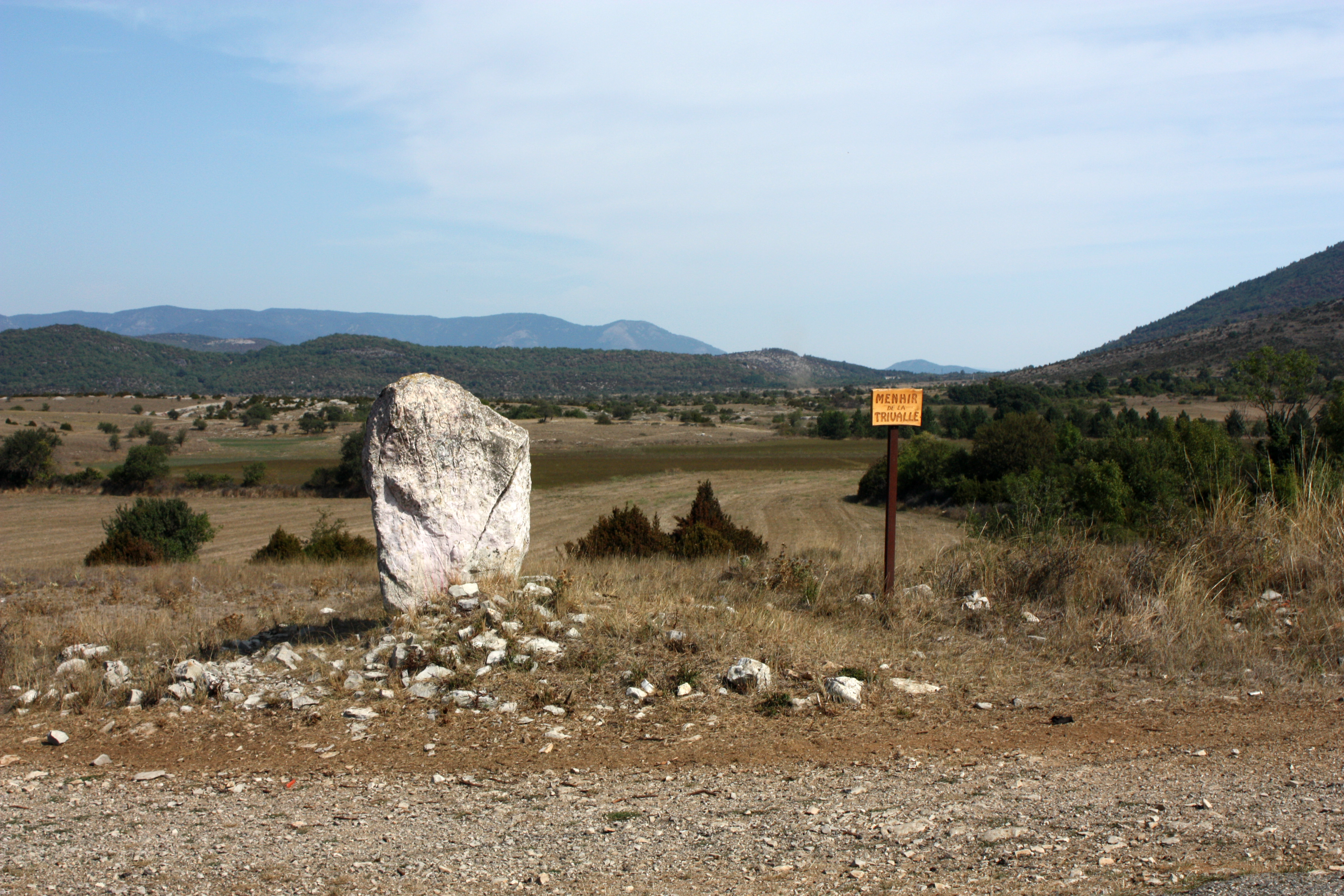 The “Menhir of the Trivalle”, probable Neolithic burial, is one of the many standing stones of the limestone plateau.